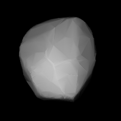 3D convex shape model of 1508 Kemi, computed using light curve inversion techniques. J. Hanuš, J. Ďurech, M. Brož, B. D. Warner (June 2011). "A study of asteroid pole-latitude distribution based on an extended set of shape models derived by the lightcurve inversion method". Astronomy and Astrophysics 530: A134. ISSN 0004-6361. arXiv